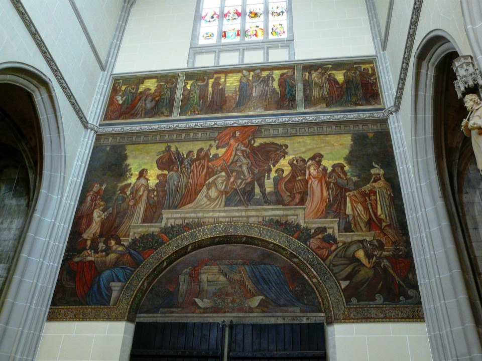 Apotheoses of Rákóczy, St.Elisabeth Košice